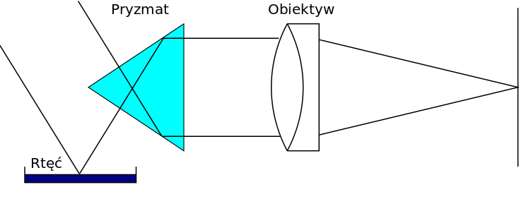 Danjon astrolabe